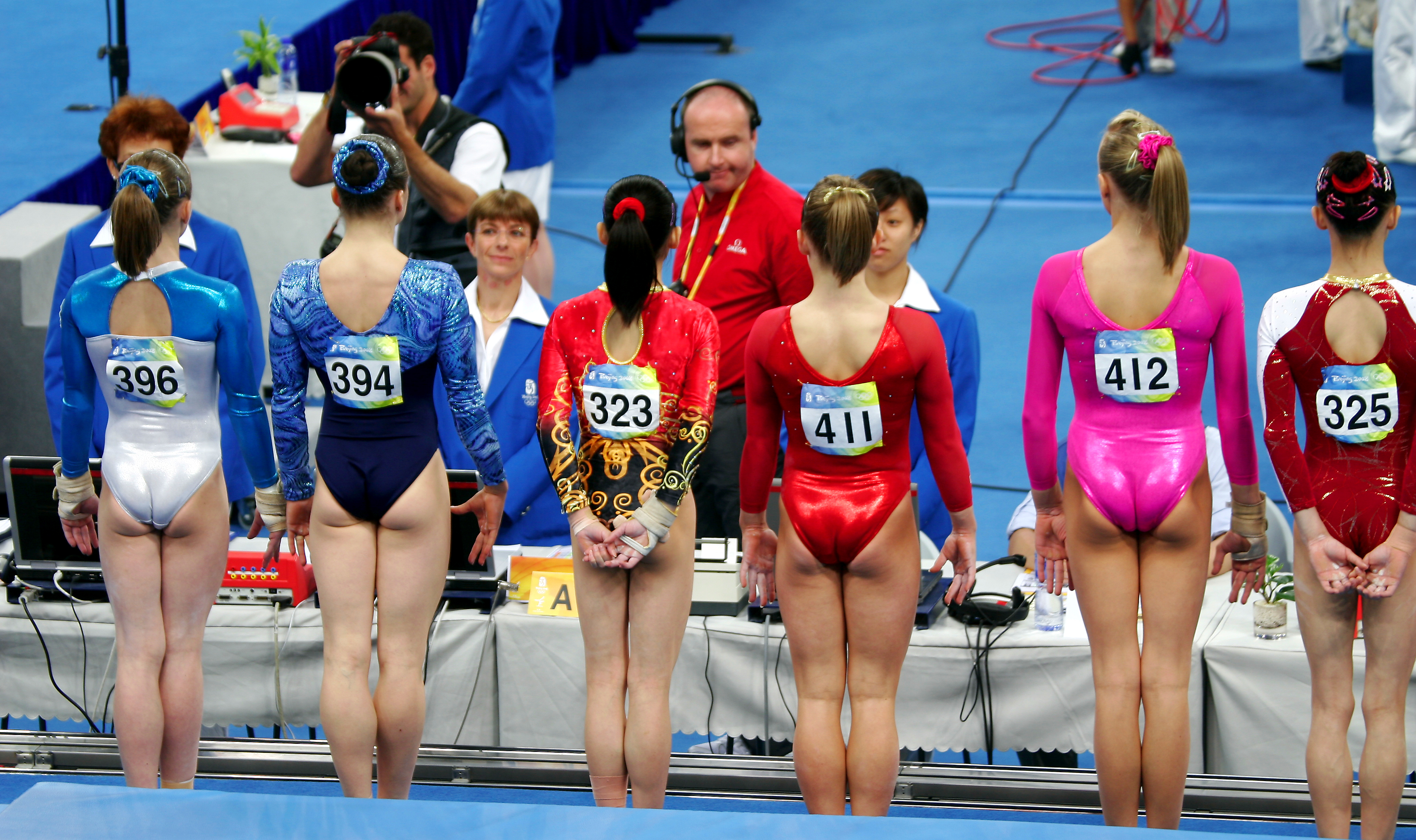 The top group of top six AA female gymansts at the 2008 Olympics greet the judges, before the start of competition. Athletes from left to right: Ksenia Semyonova, Anna Pavlova, Jiang Yuyuan, Shawn Johnson, Nastia Liukin and Yang Yilin.